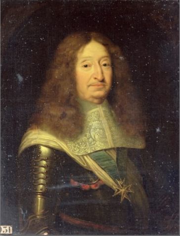 César de Bourbon, Duke of Vendôme